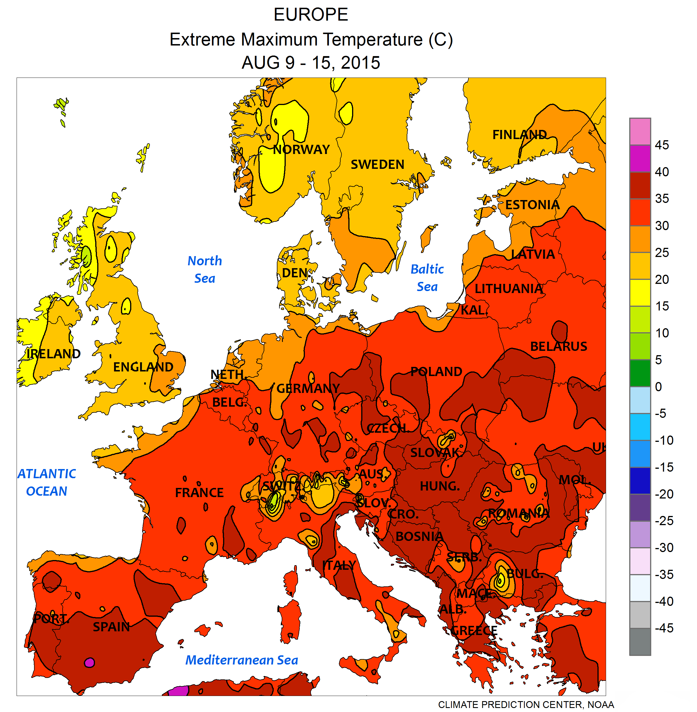 Europe: Extreme maximum temperature August 9 - 15, 2015, computer generated contours, based on preliminary data